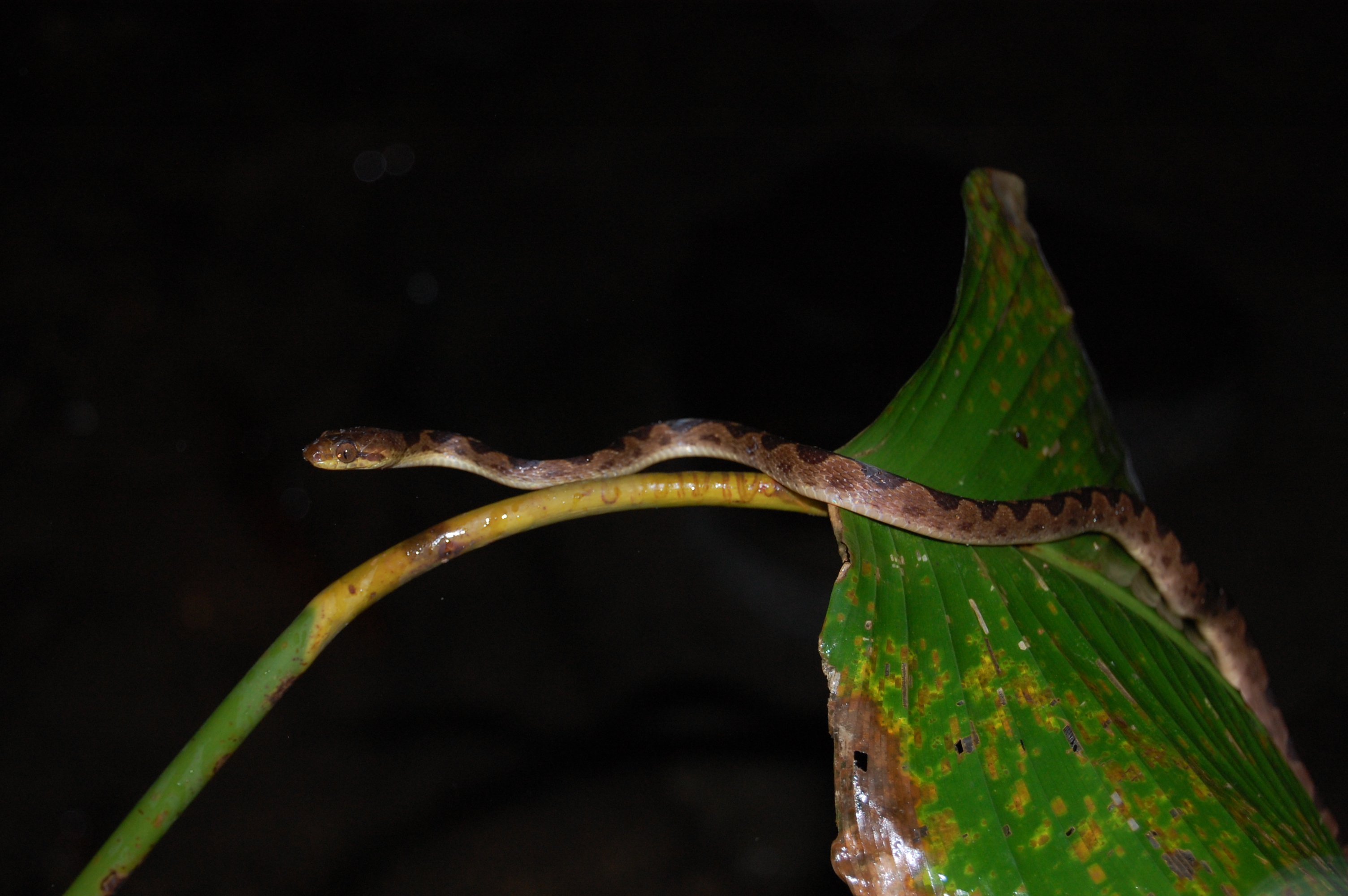 Leptodeira septentronalis (Northern cat-eye snake) spotted on a night walk in the Osa Peninsula, Costa Rica. (Our guide told us that they feed on the red-eyed tree frog (Agalychnis callidryas) and its eggs, and quickly found such a frog nearby.)